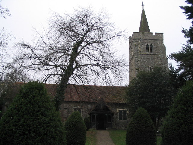 St. Mary's Church, Runwell. Majority of the church was built in the 15th century